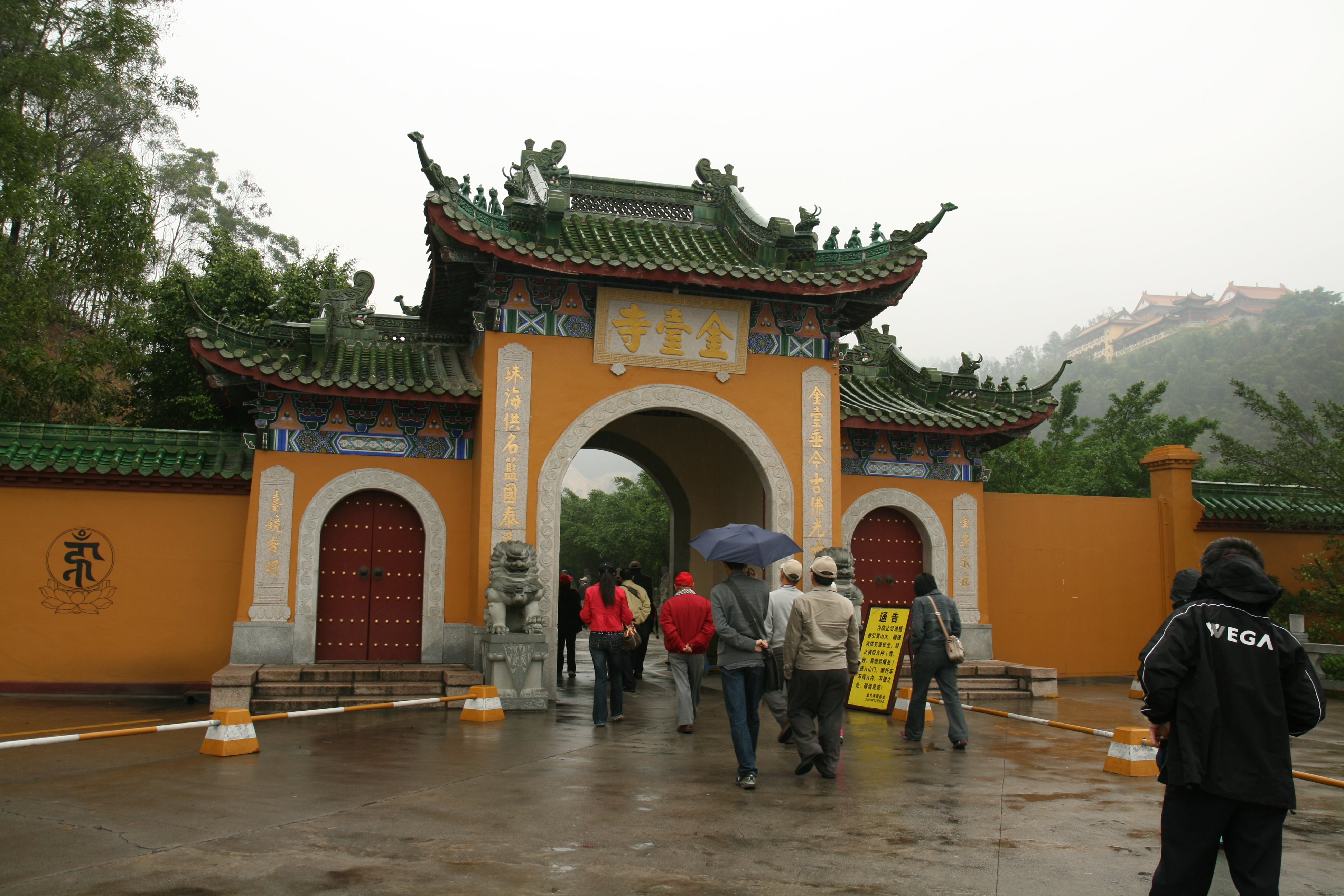 Jin Tai Tample in Zhuhai